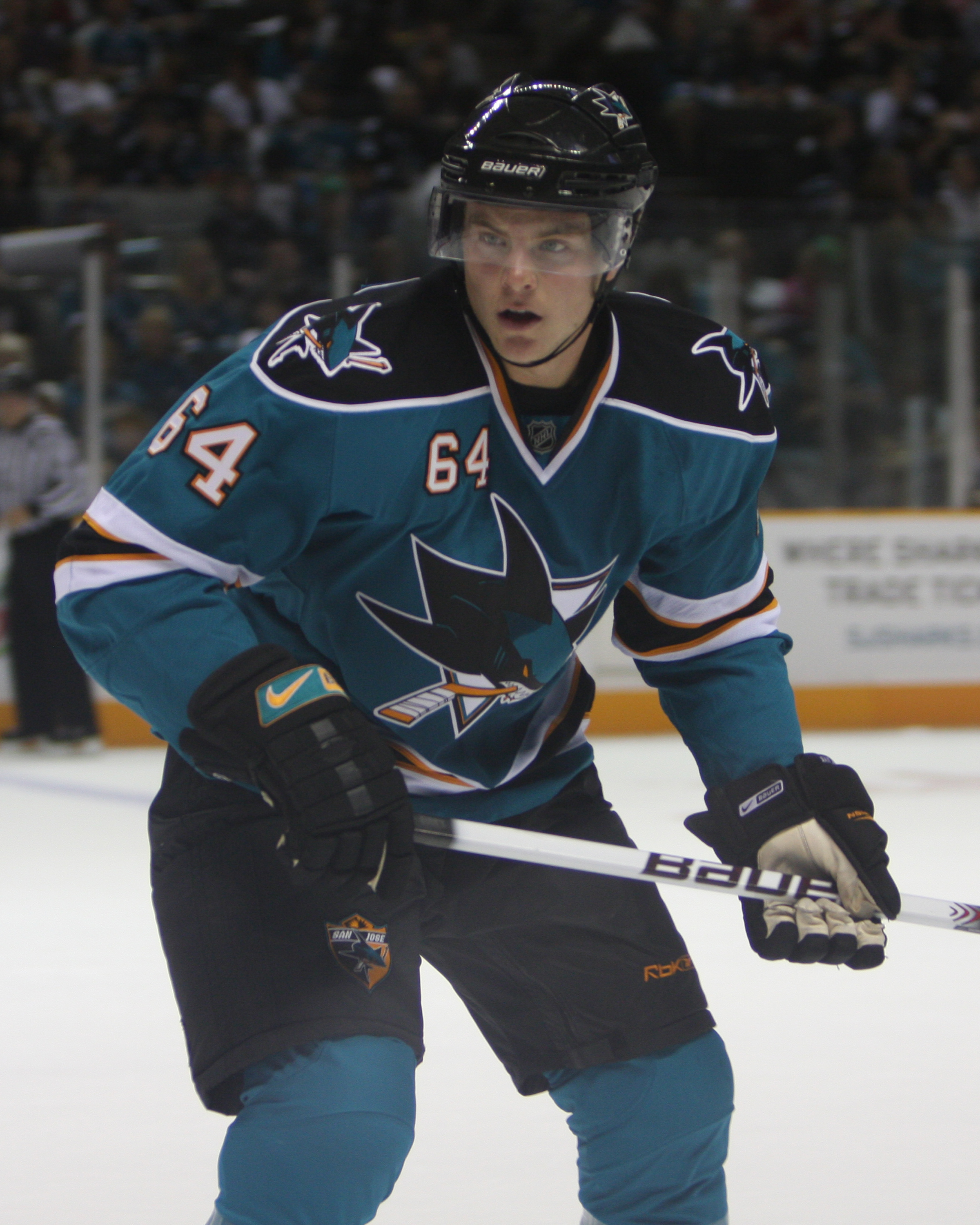 Jamie McGinn during the SJ Sharks Teal & White Game on September 16th, 2009